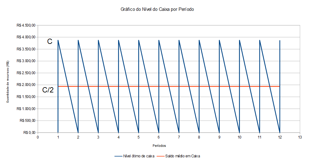 Cash flow level variation with Baumol method.